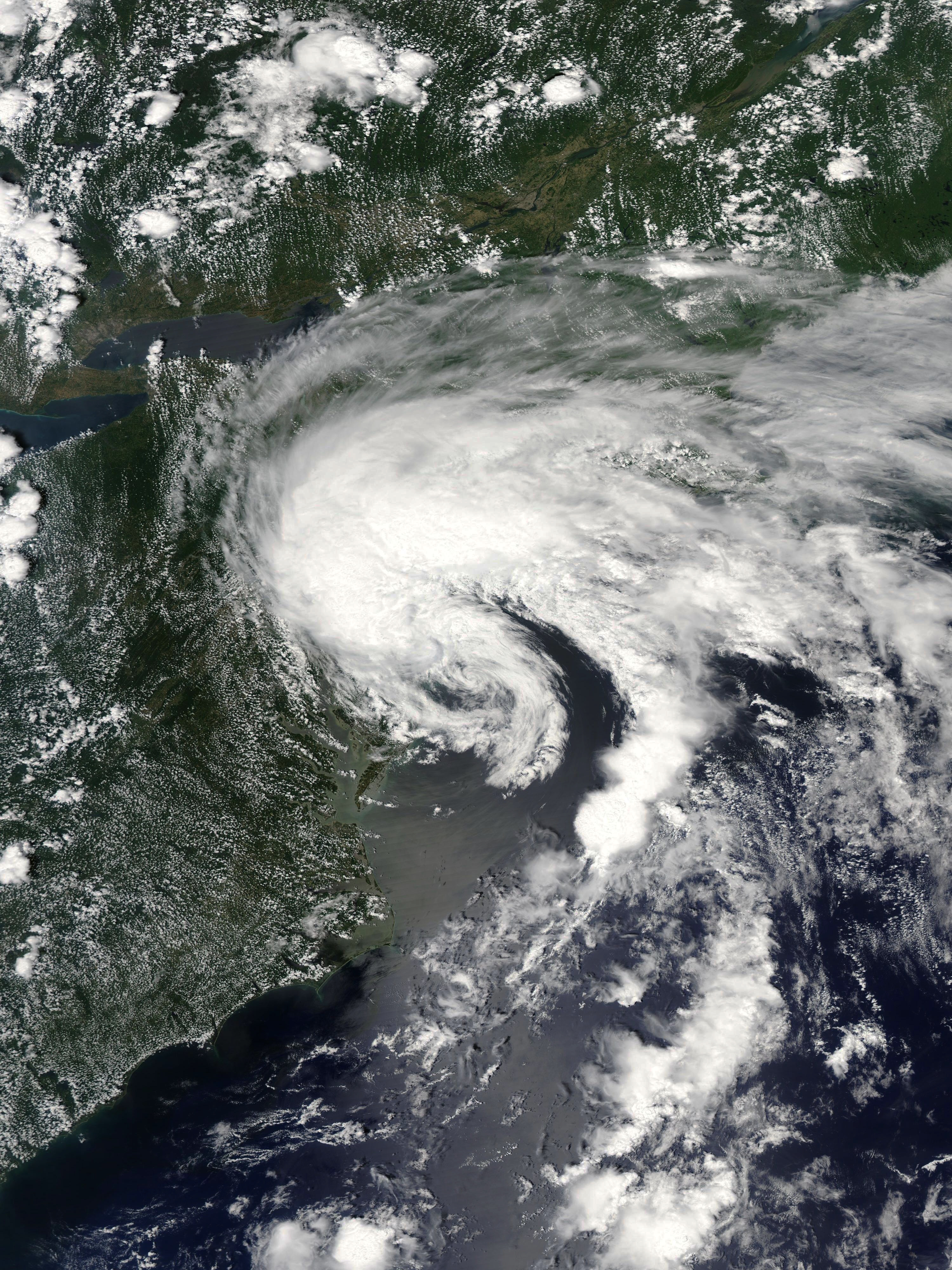 Tropical Storm Fay on July 10, 2020